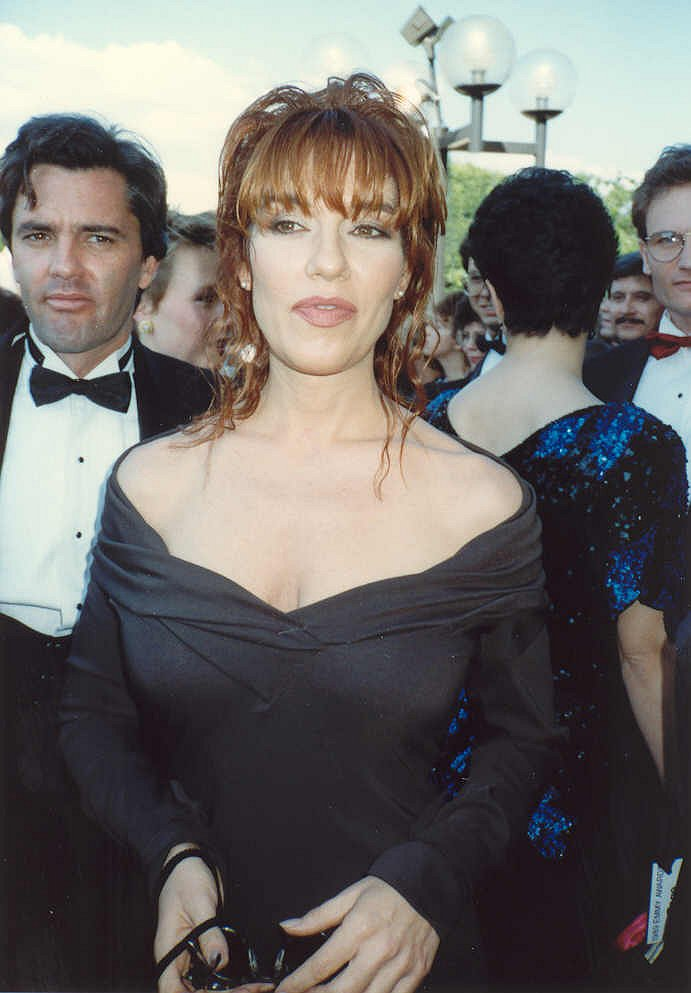 Katey Sagal at the 41st Emmy Awards 9/17/89.